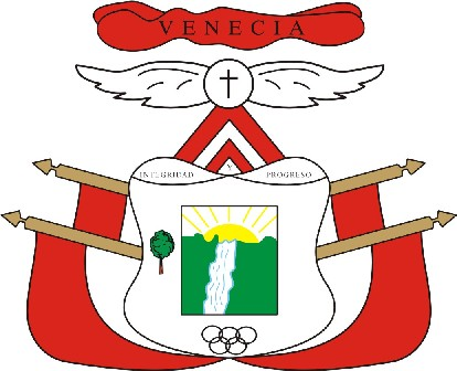 Coat of arms of Venecia (Cundinamarca) - Colombia